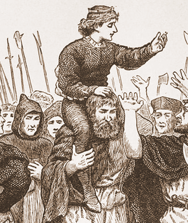 An illustration of Lambert Simnel riding on the shoulders of supporters in Ireland